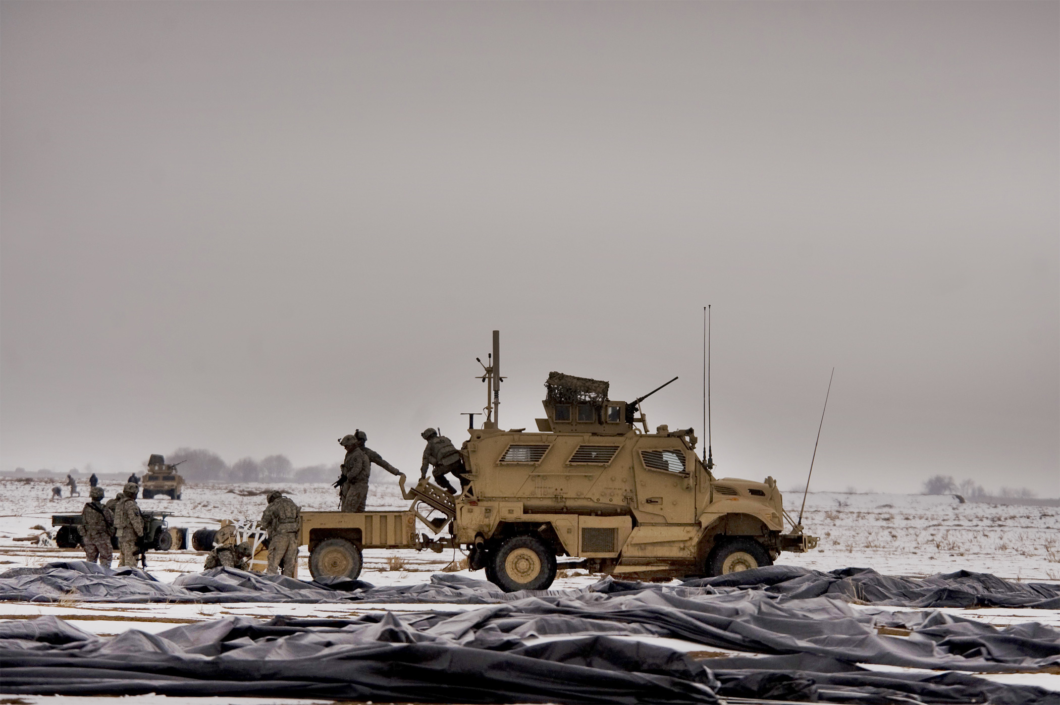 Soldiers from Task Force Currahee, 4th Brigade, 101st Airborne Division, recover bundles of fuel Jan. 29, 2011, that were air delivered to Forward Operating Base Waza K'wah, Afghanistan, via a C-17 Globemaster III. The fuel was delivered to help sustain members of Task Force Currahee, whose only means of resupply is through air delivery. (U.S. Air Force photo/Master Sgt. Adrian Cadiz)